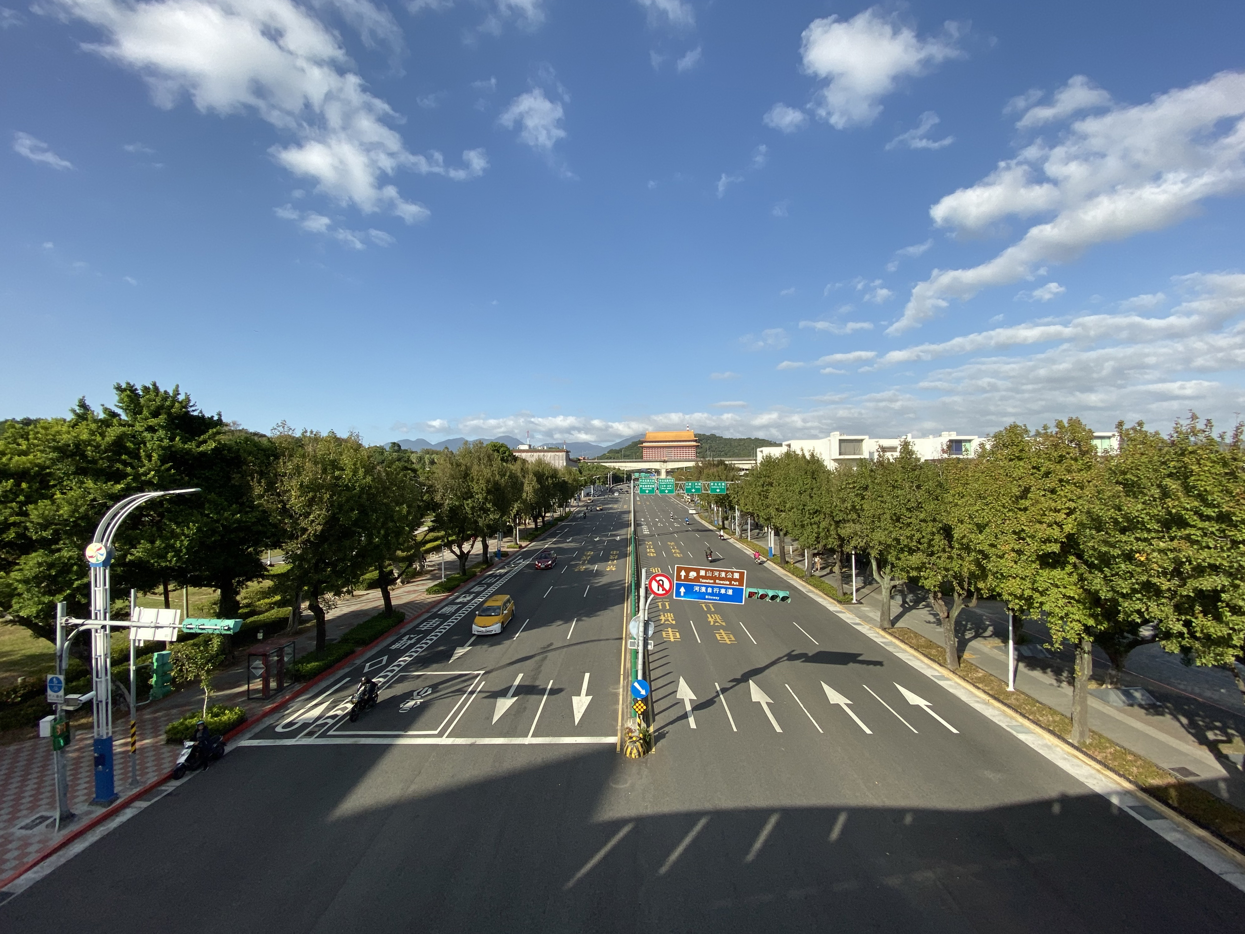 ZhongShan N. Road section 3